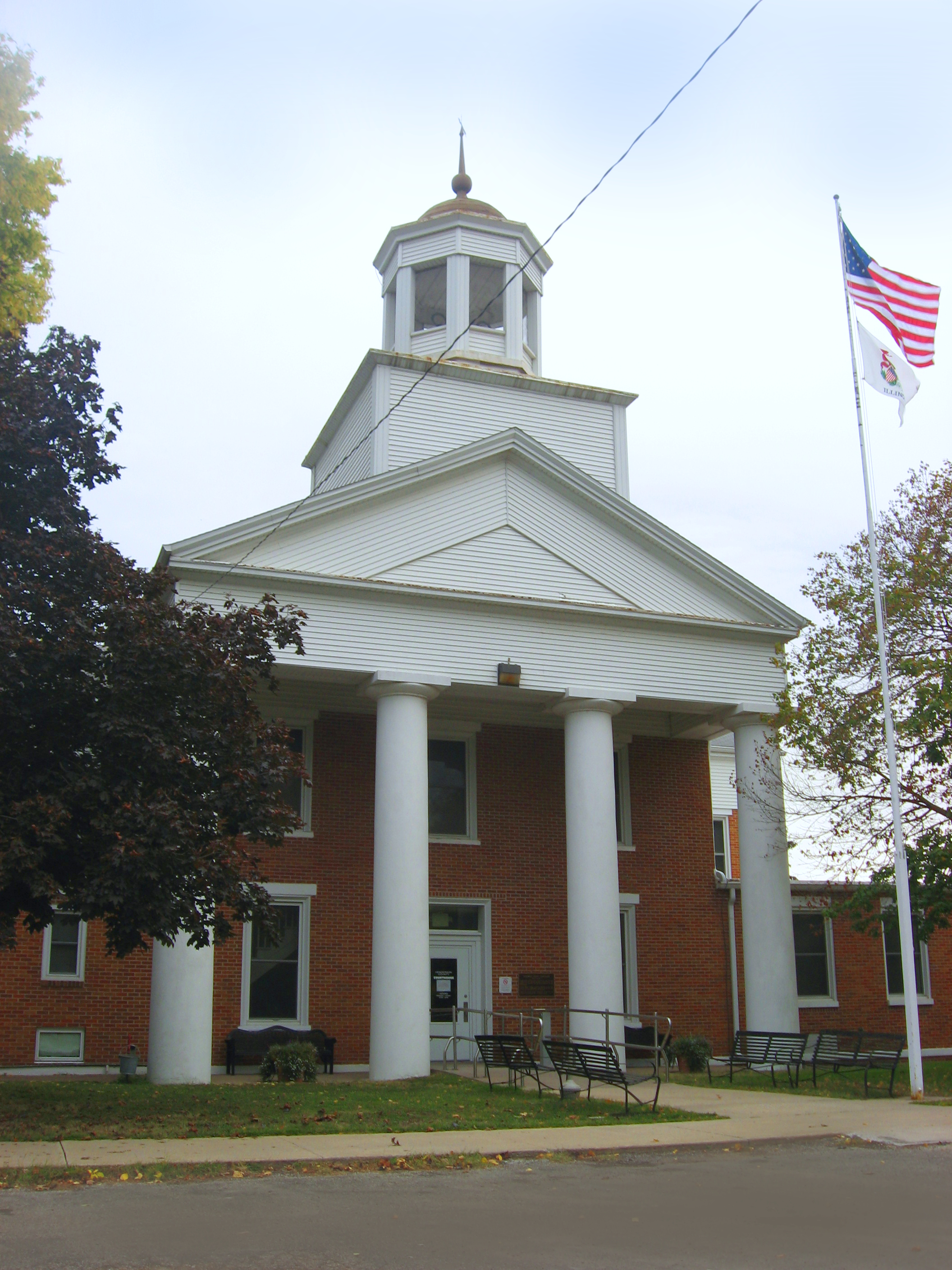 Front of the Henderson County Courthouse, located on the northwestern corner of the intersection of Fourth and Warren Streets in Oquawka, Illinois, United States. Built in 1842, it has experienced substantial modifications.